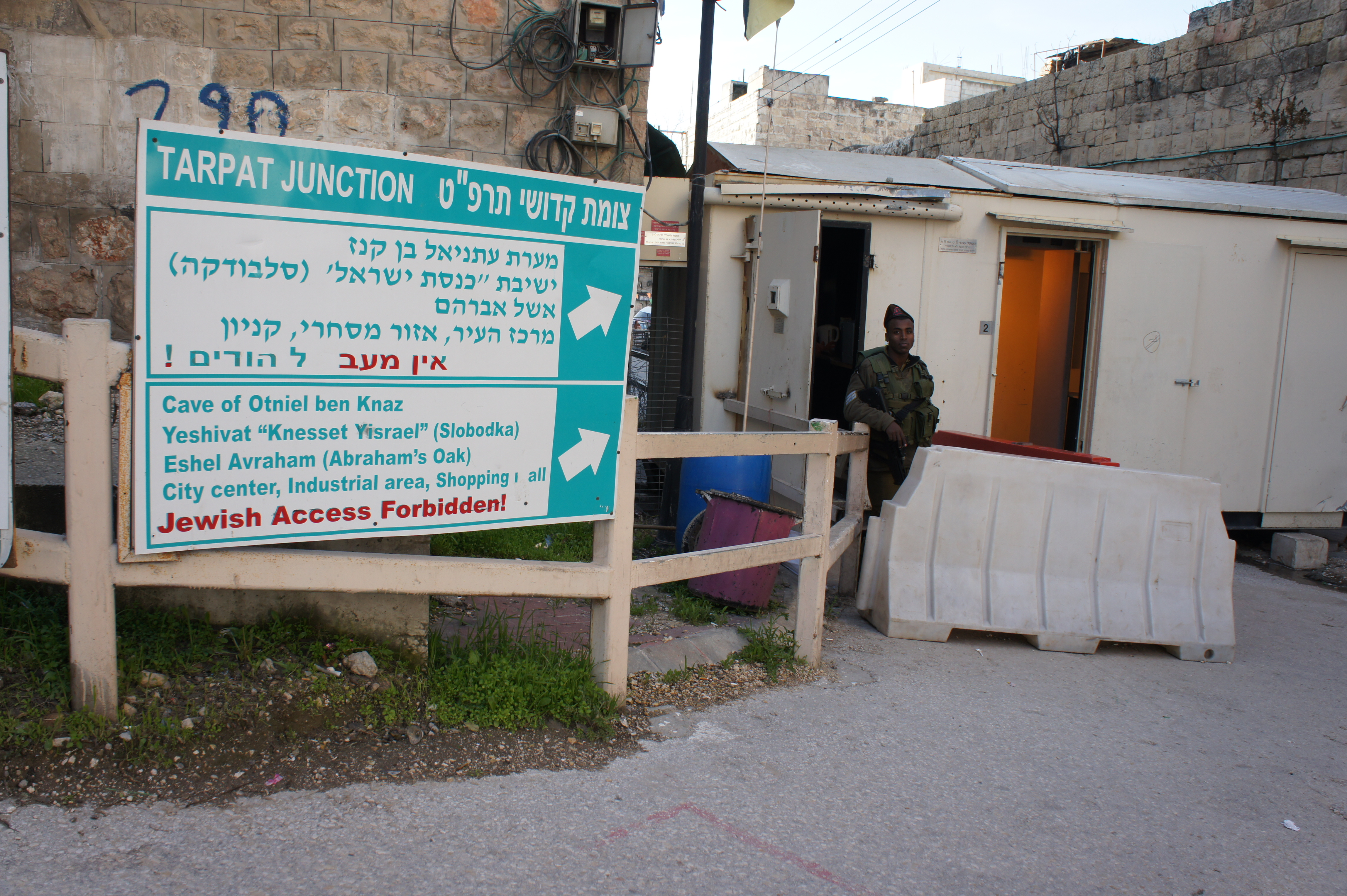 Hebron. Checkpoint 56 with false and racist message